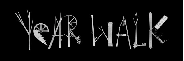 Logo of the Year Walk game.